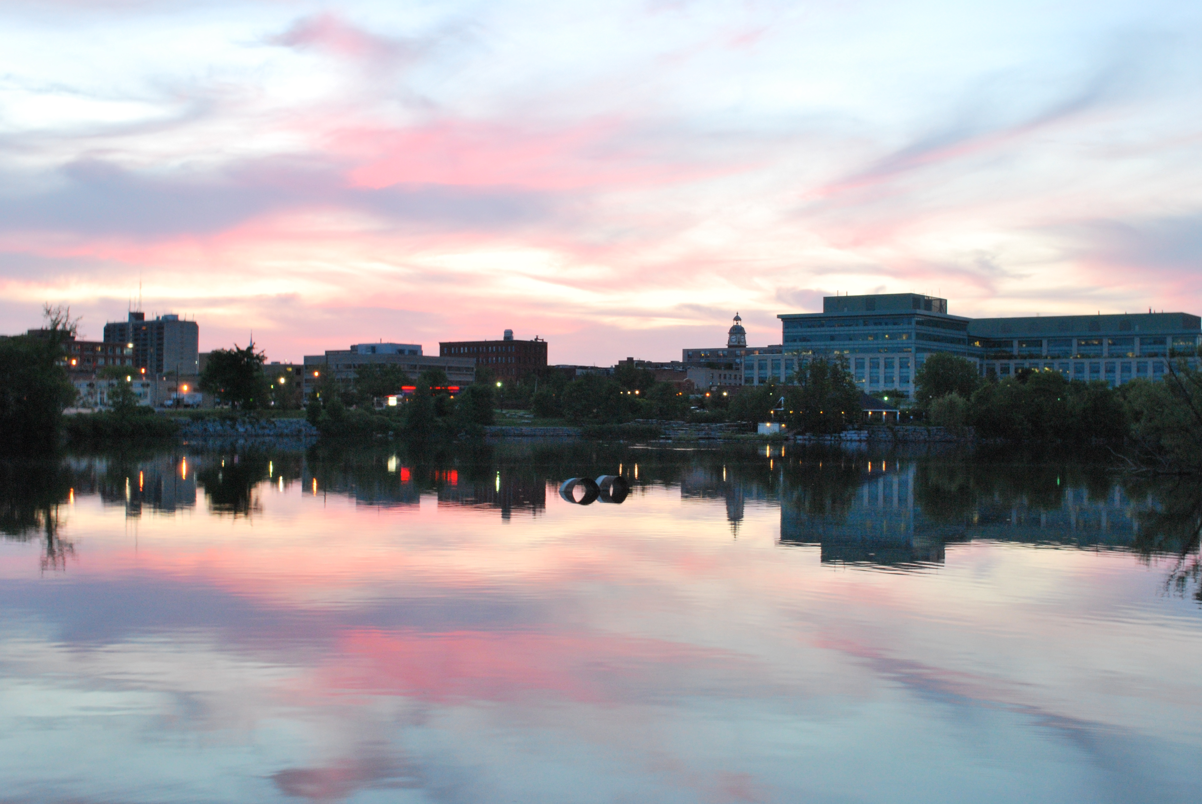 Downtown Peterborough at dusk from the Otonabee